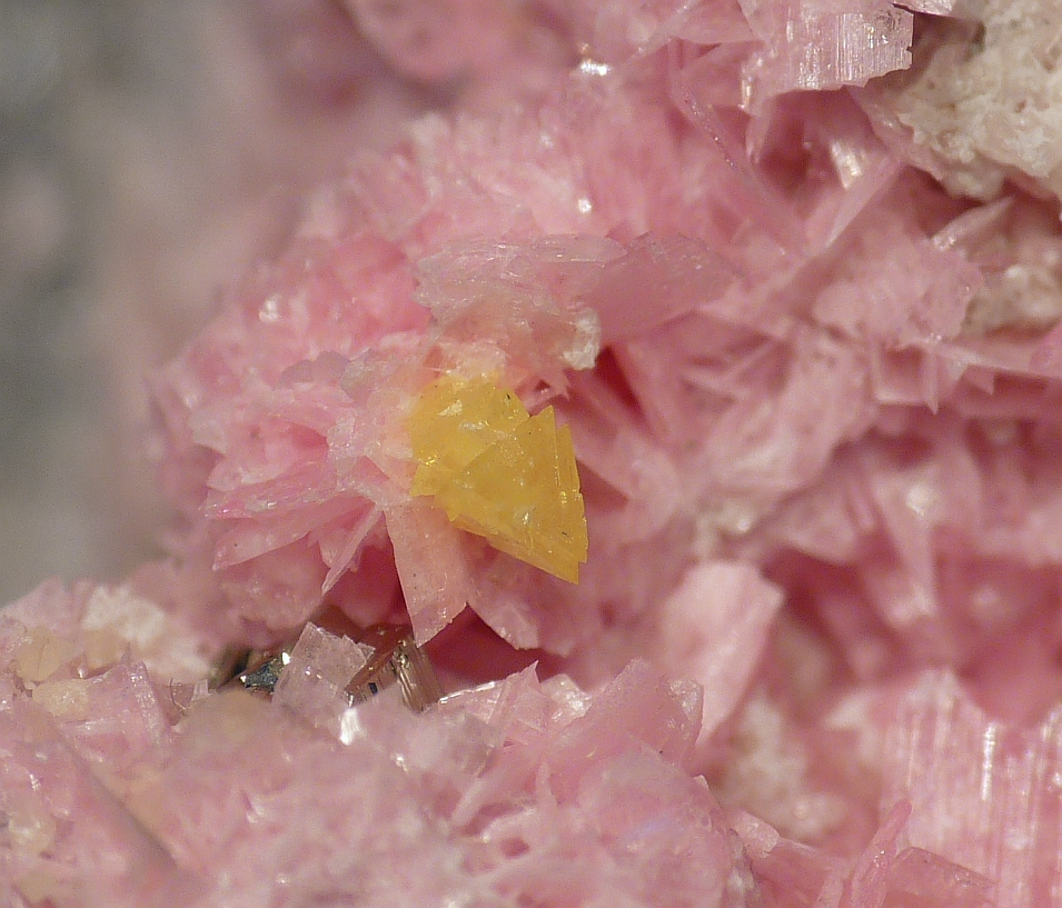 Anapaite Locality: Pachapaqui District, Bolognesi Province, Ancash Department, Peru Field of view 8 mm. Specimen and photo Leon Hupperichs.